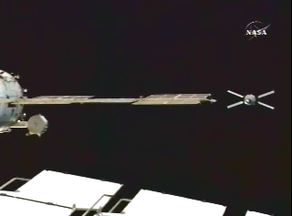 The ATV closing in to the ISS during Demo-Day 2